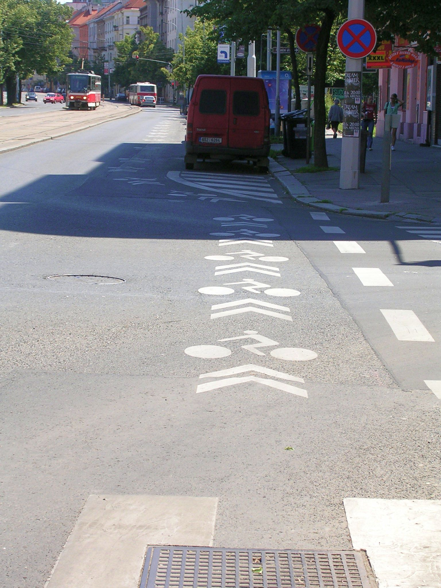 Vršovice, Prague, the Czech Republic. Vršovická street, a cycle lane.